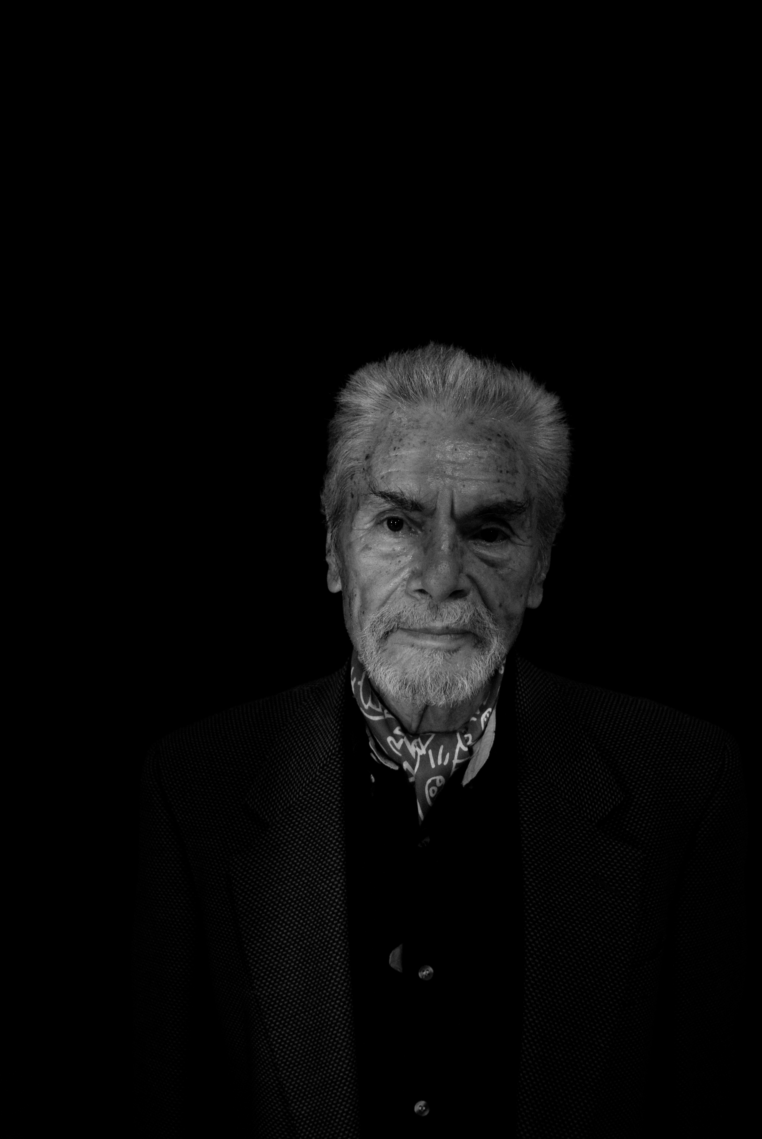 Portrait of Adolfo Mexiac, Mexican engraver.